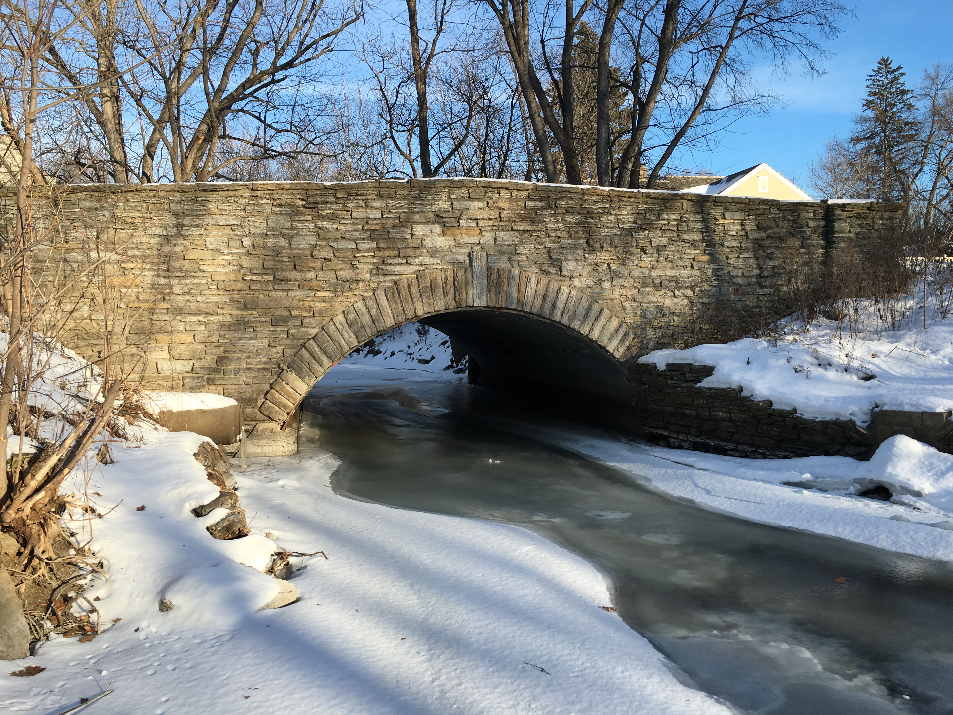 Bridge No. 90646 in Edina, Minnesota, listed on the National Register of Historic Places.